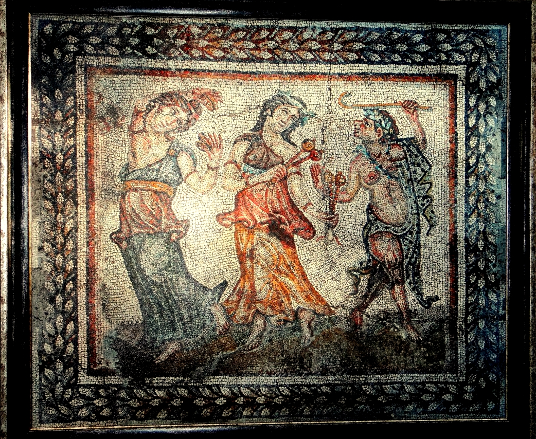 “Dionysus's Procession”, The Unique 4th century AD Ancient Roman mosaic in the city of Augusta Trayana in Bulgaria's Stara Zagora